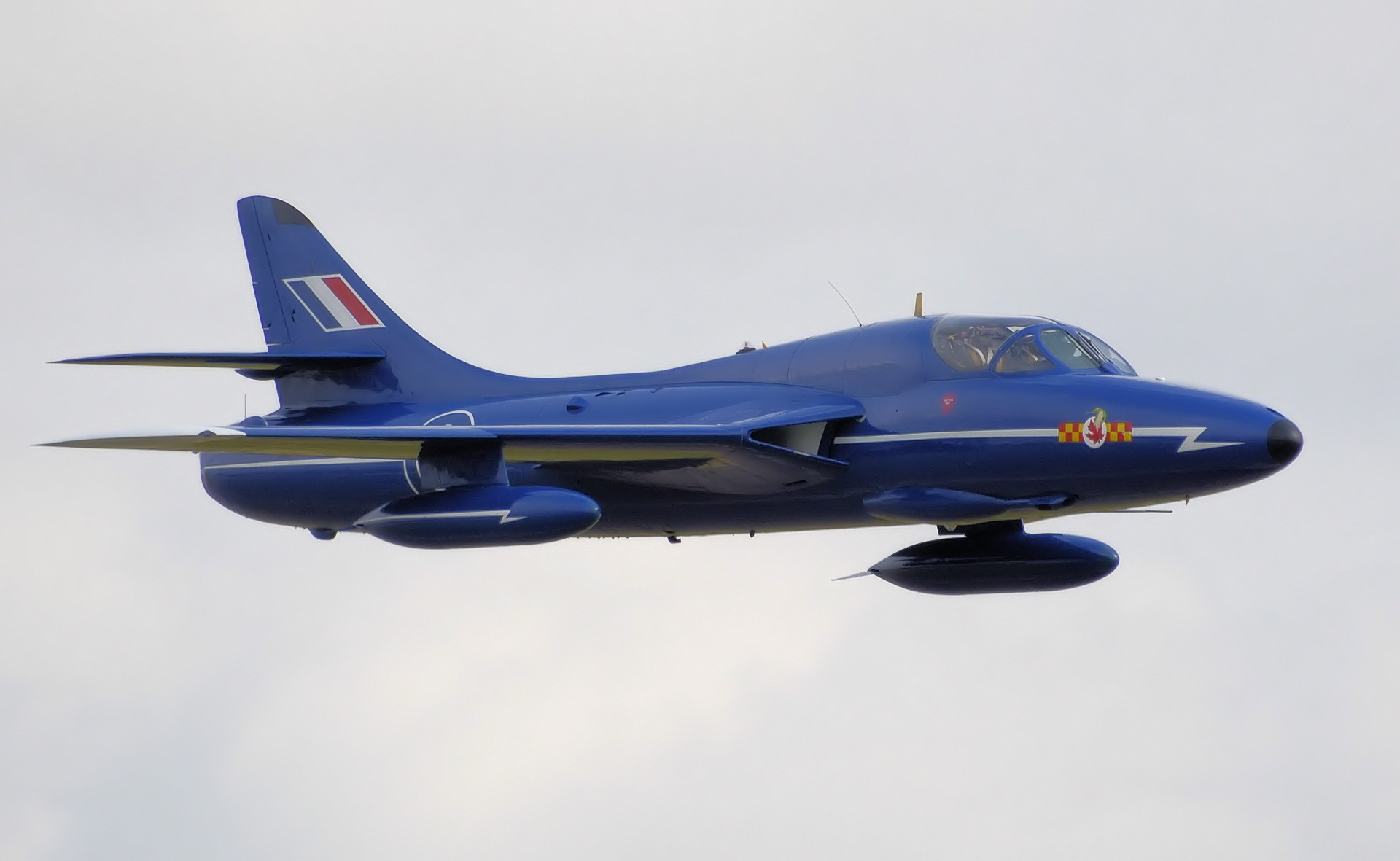 Privately-owned Hawker Hunter T.7 “Blue Diamond” (XL577, G-BXKF) of the Delta Jets fleet, at Kemble Airport Open Day, Gloucestershire, England, September 9th 2007. Blue Diamond was built in 1958 for the RAF, and sold to Delta Jets in 1996. She took 6 years to restore to flight.